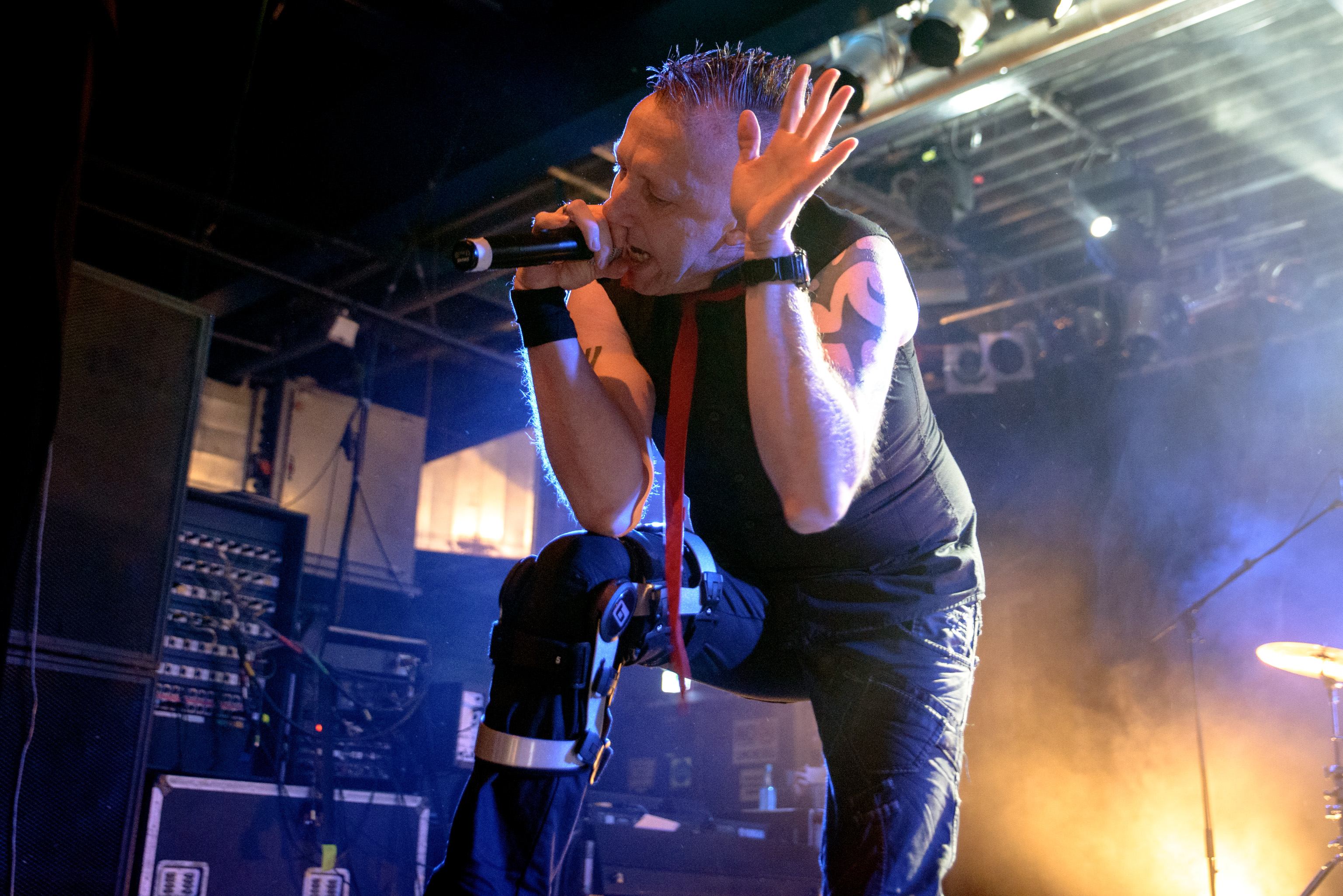 Suicide Commando Live @ Free & Easy Festival 2015